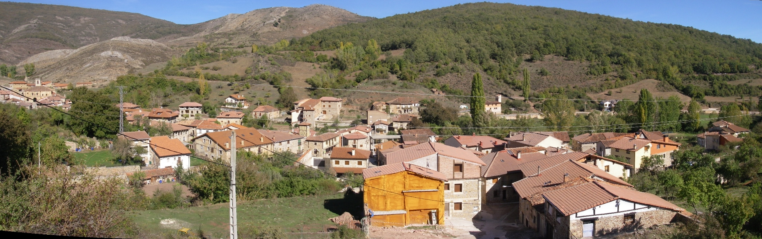 View of Canales de la Sierra (La Rioja, Spain)